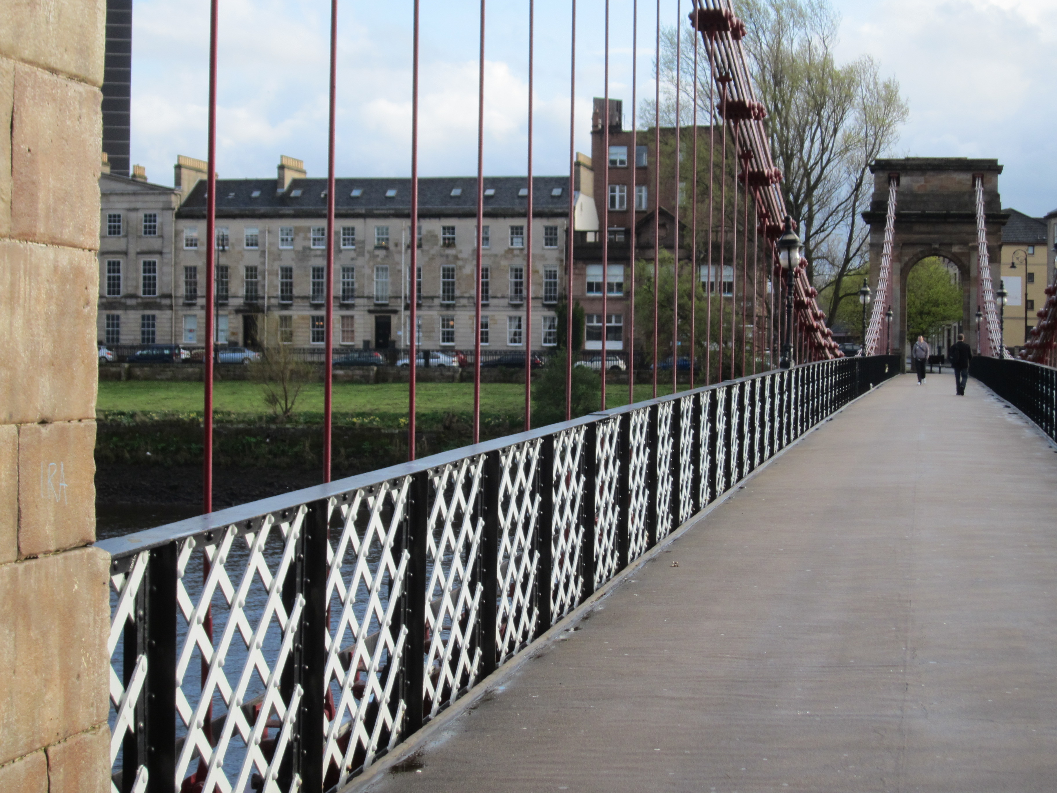 S Portland Street Suspension Bridge on southern edge of central Glasgow